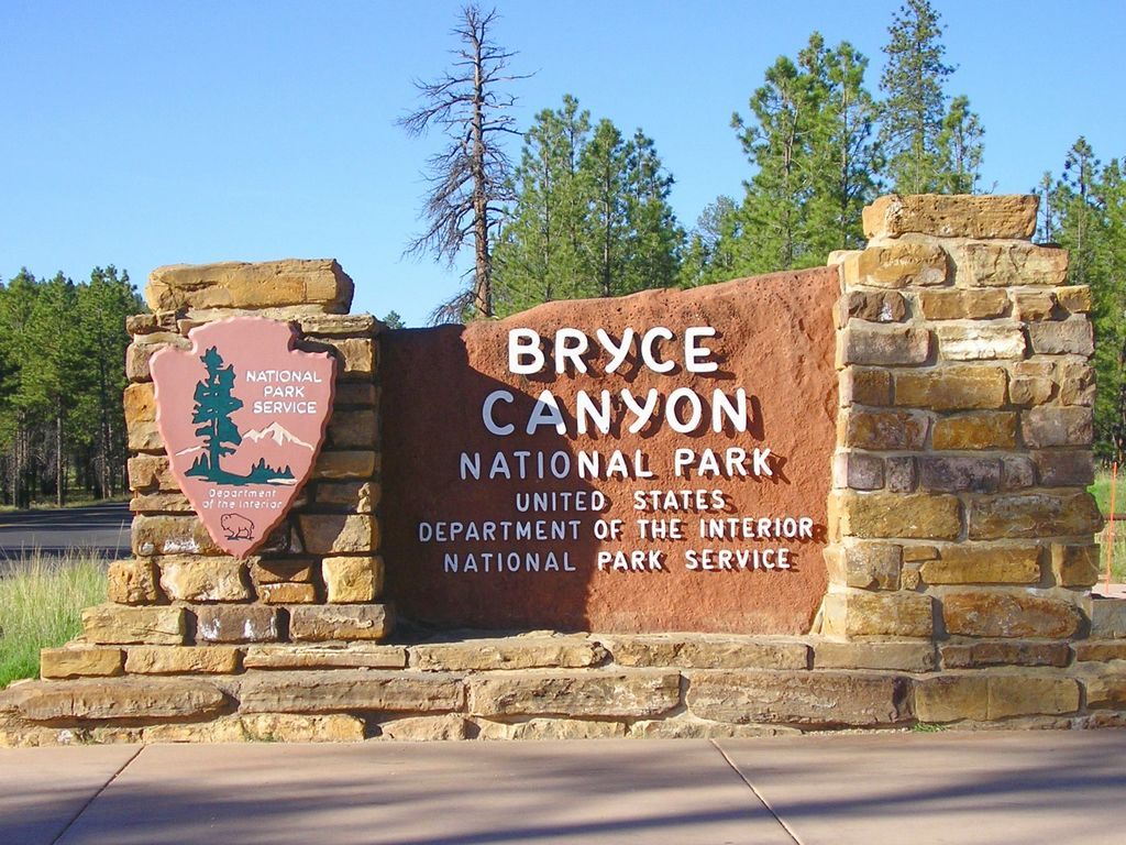 Bryce Canyon National Park Entrance, Utah, USA